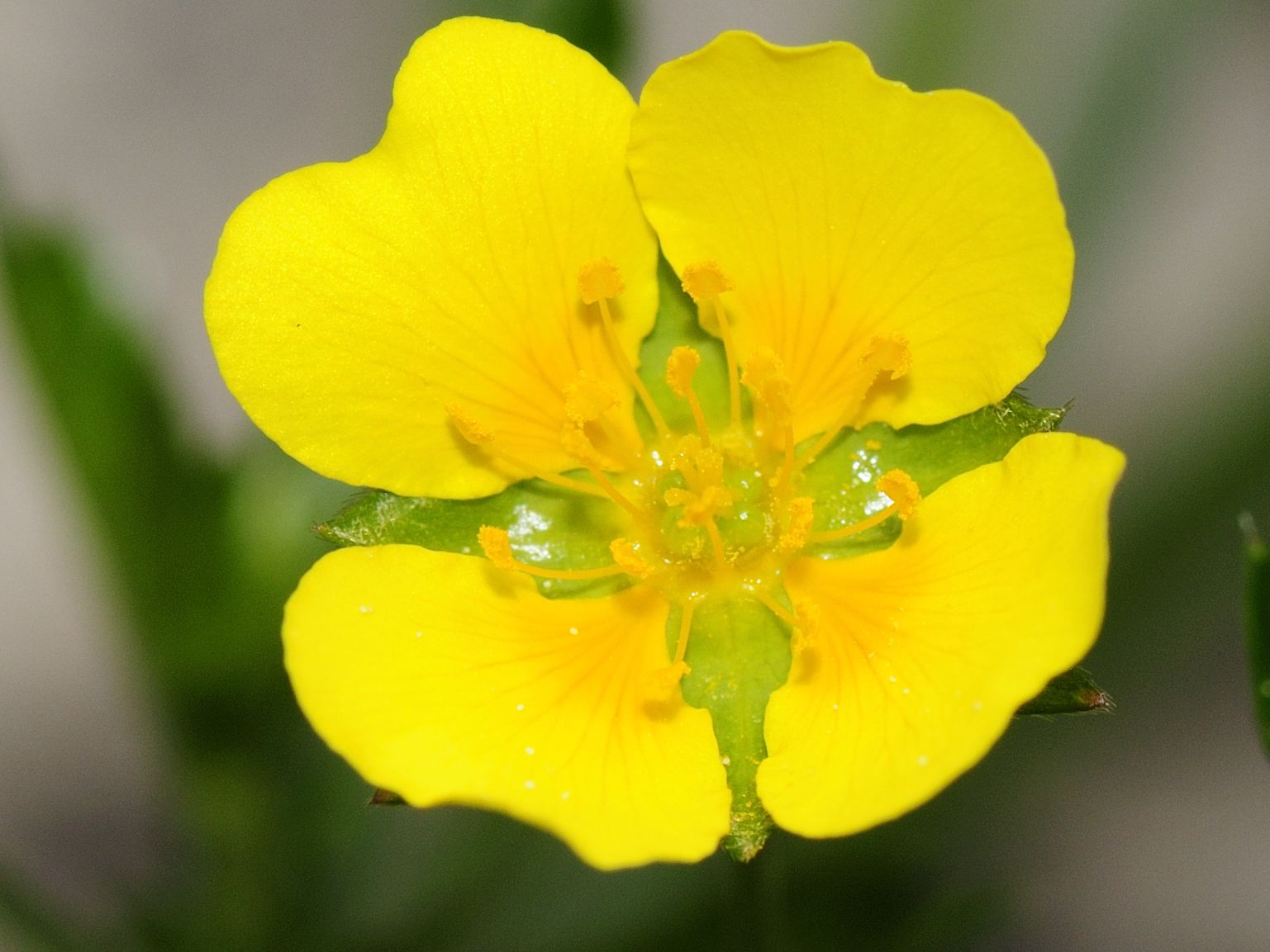 Please report references to .